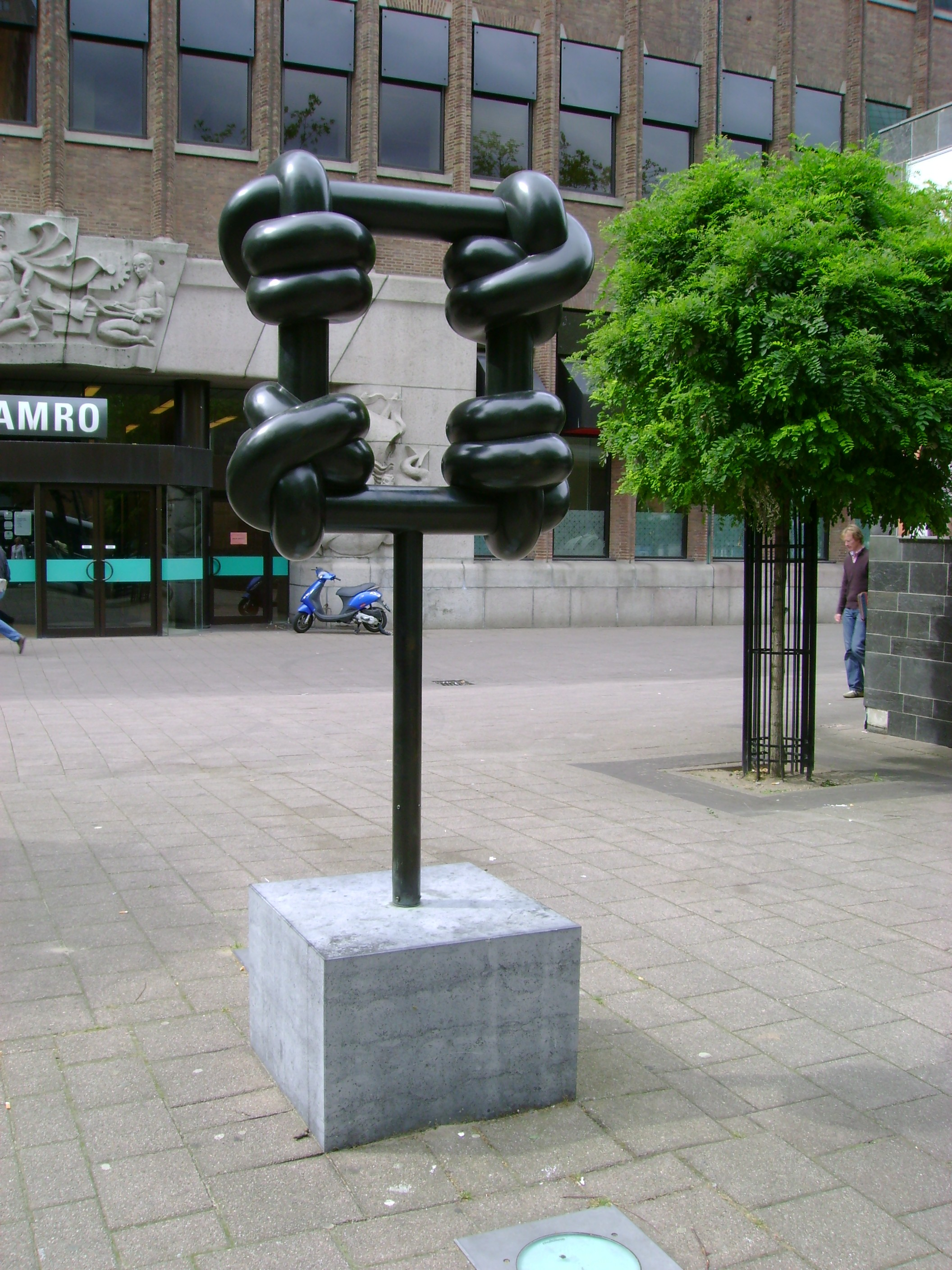 sculpture The Knot (De Knoop) (1976) by Shinkichi Tajiri (USA) in Rotterdam/The Netherlands